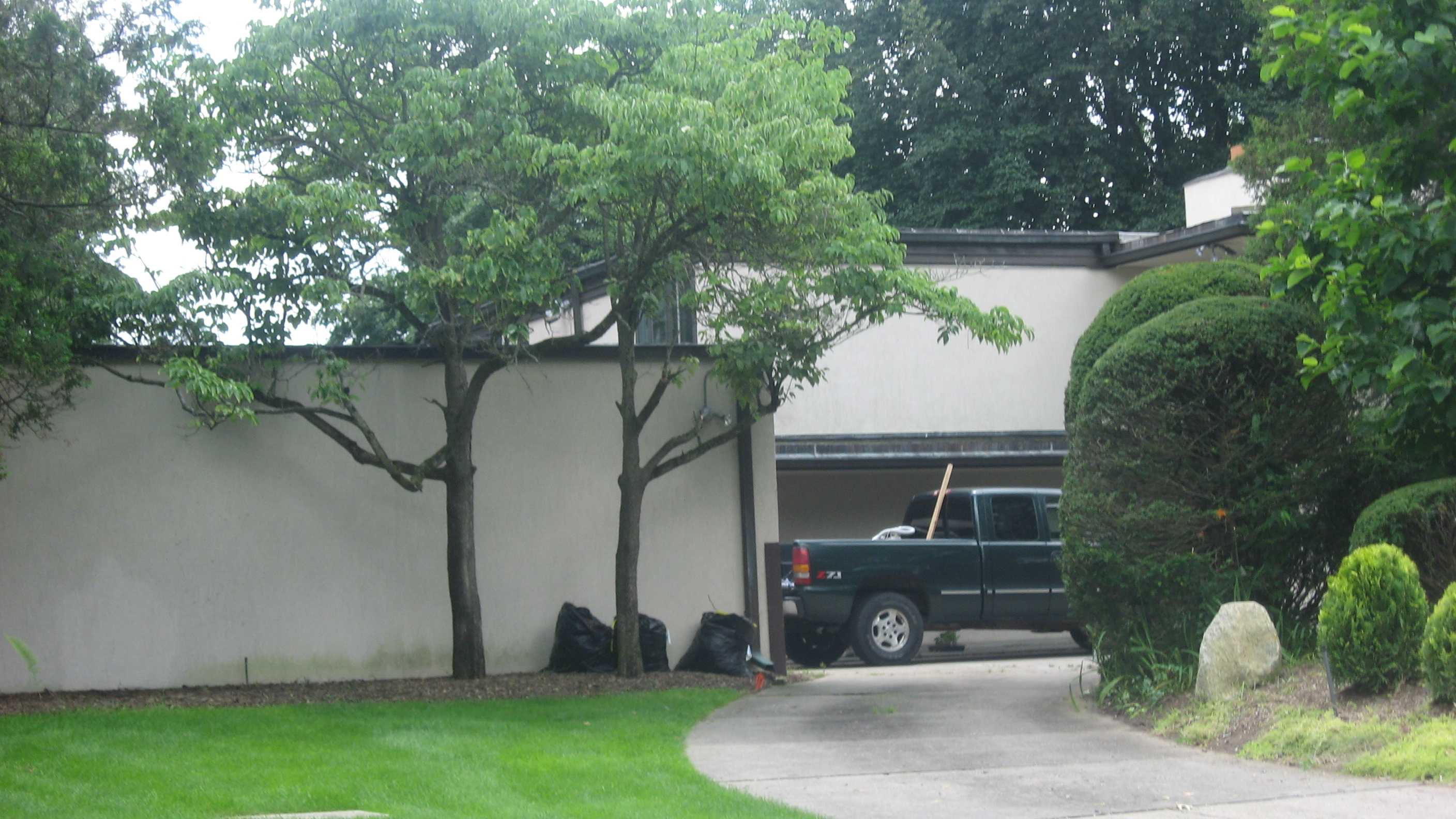 Streetside view of the William and Helen Koerting House, located at 2625 Greenleaf Boulevard in Elkhart, Indiana, United States. Built in 1937, it is listed on the National Register of Historic Places.